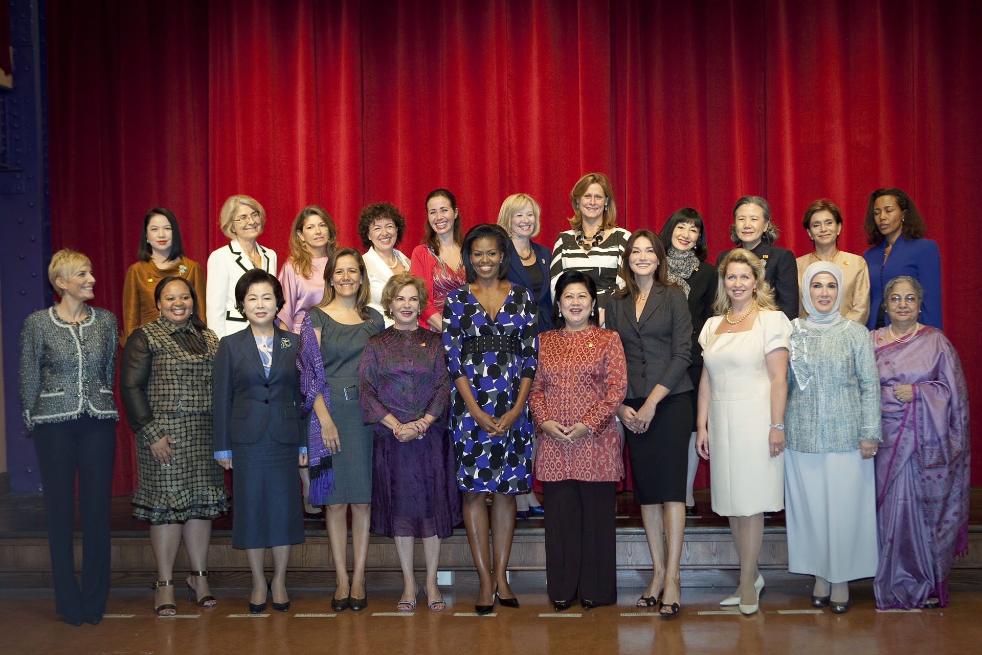 First Lady Michelle Obama and the spouses of the G20 leaders pose for a group photo at CAPA High School in Pittsburgh, Penn., Sept. 25, 2009.